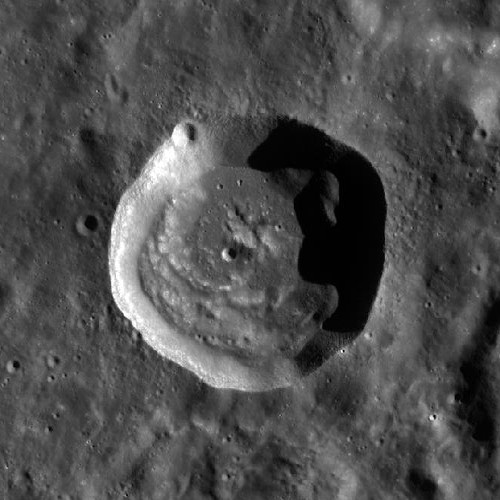 Chant crater, on the far side of the moon. Mosaic of LRO WAC images. Aspect ratio adjusted from Mercator Projection.